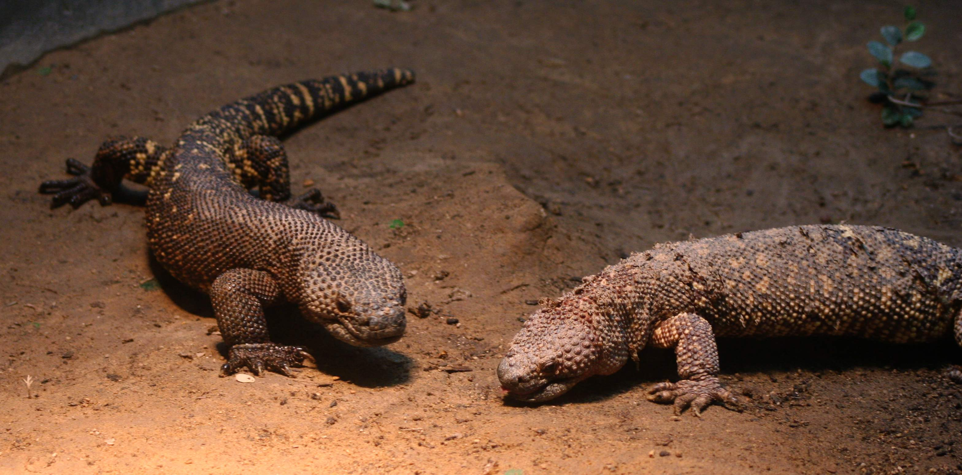 Mexican beaded lizards (Heloderma horridum), at the Buffalo Zoo